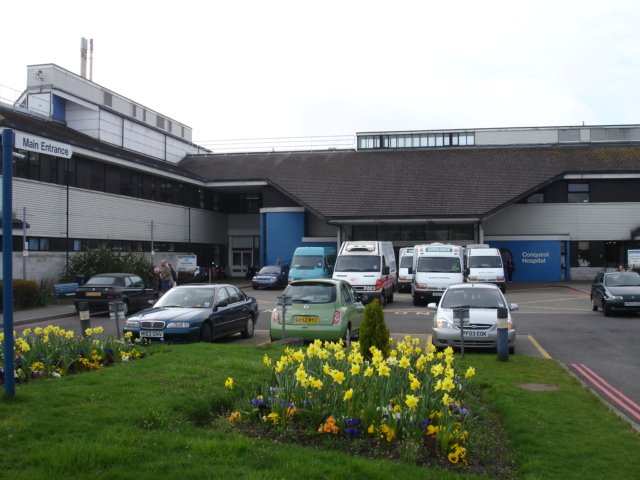 Conquest Hospital St Leonards East Sussex Main entrance to the Conquest Hospital on The Ridge St Leonards.The Conquest is a modern district hospital built on a gentle sloping site with 4 levels. Most of the wards look out on to a lagoon, with panoramic views over the historic town of Hastings and the English channel.